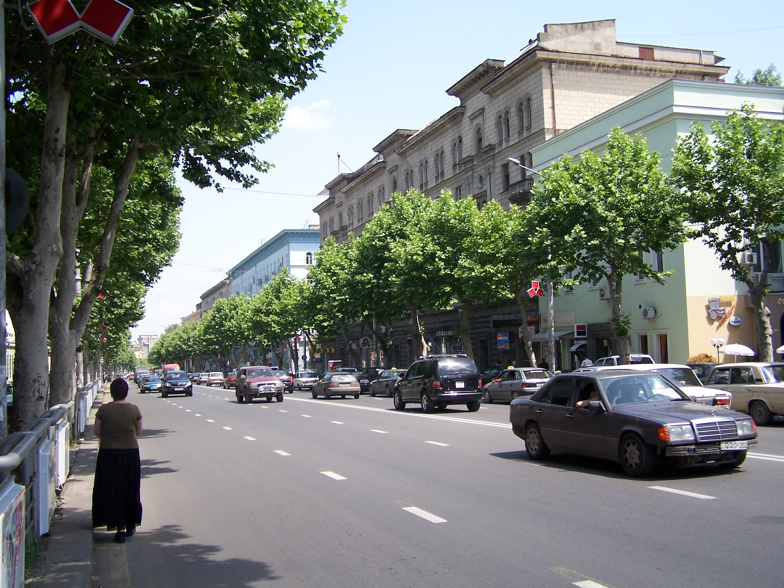 Chavchavadze Street